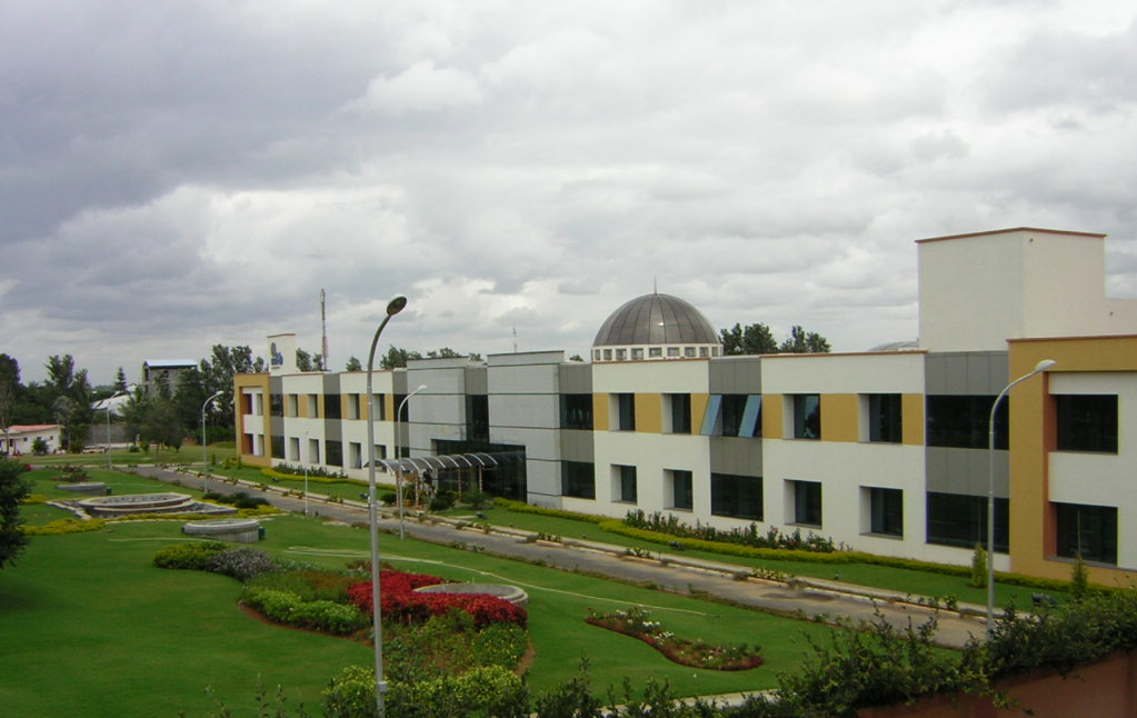 A view of the iiit-b campus